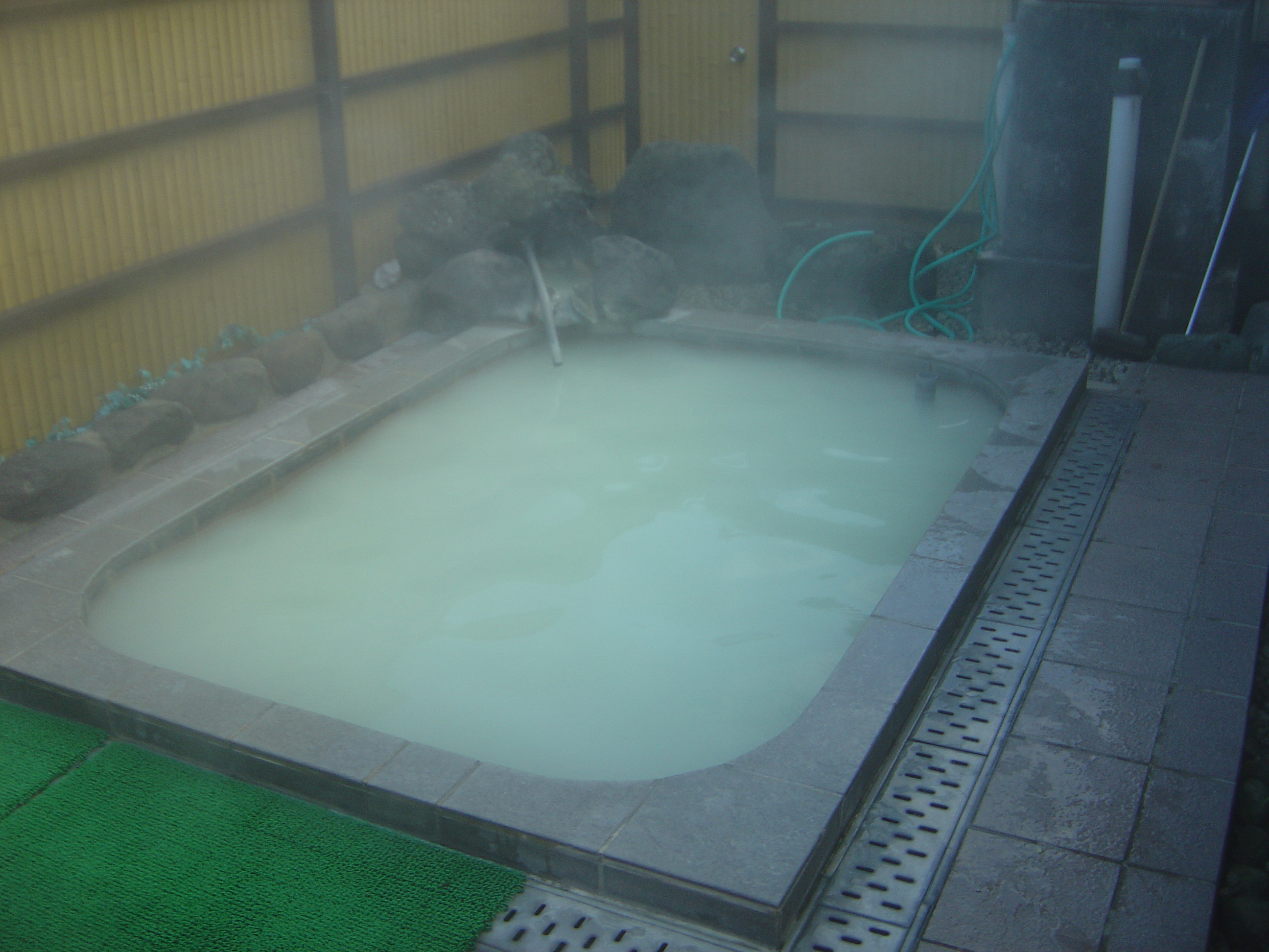 Outside bath (rotenburo) in the Fuji-Hakone Guest House in Hakone, Japan